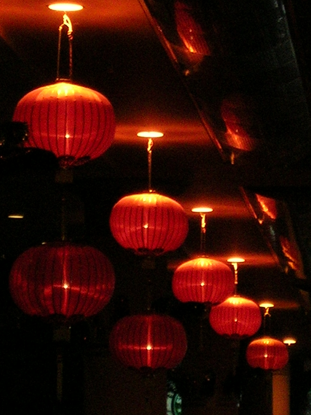 Red lanterns are hung out during the Lunar New Year as a symbol of good fortune.